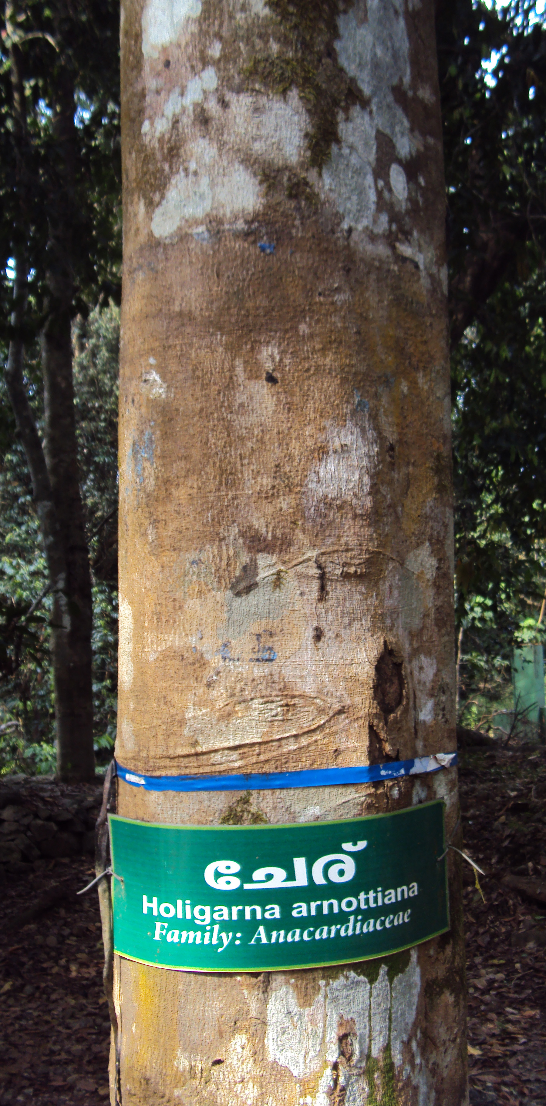 Holigarna arnottiana bark